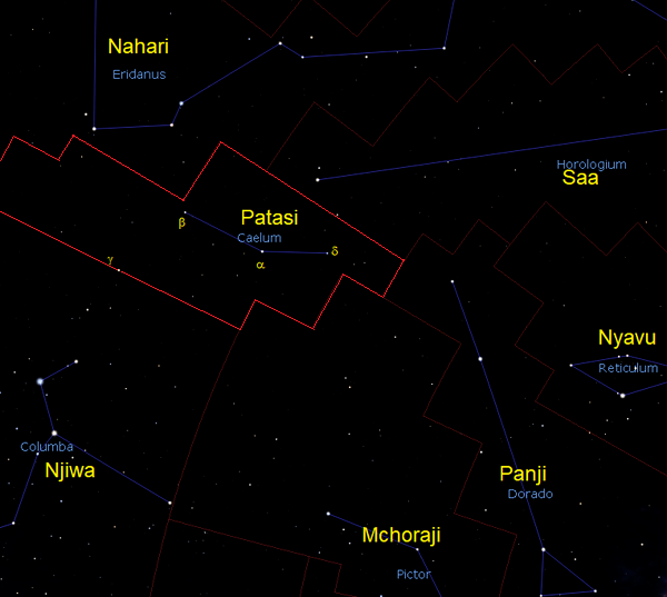 Constellation Caelum as seen from Tanzania, Swahili labelled Kiswahili: Kundinyota Patasi (Caelum) jinsi inavyoonekana kutoka Tanzania, majina kwa Kiswahili